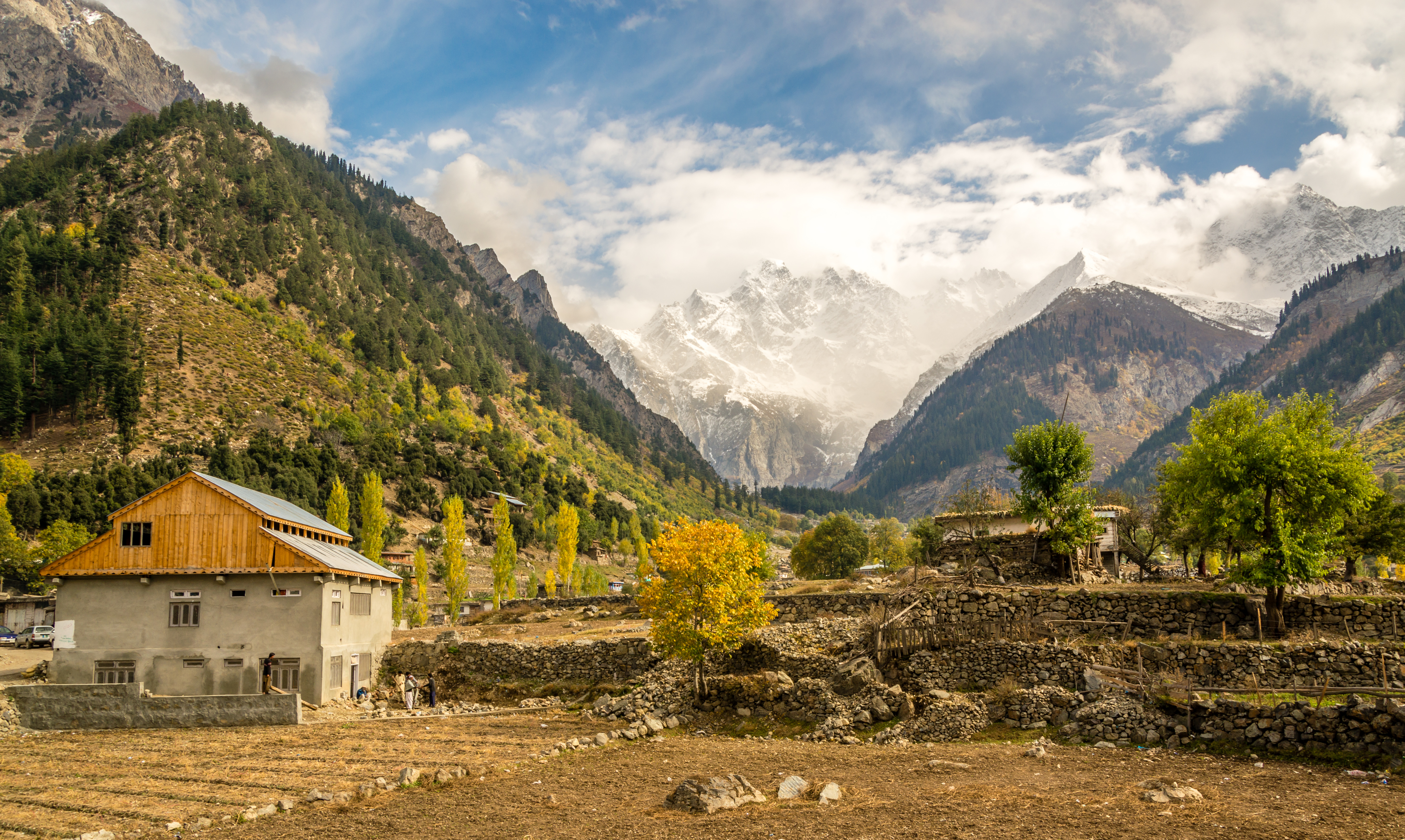 Matilton Village is a beautiful village in Swat, KPK on the way to Mahodand Lake.